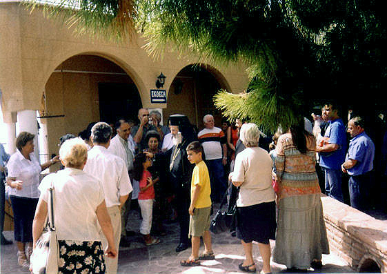 Archbishop Christodoulos of Athens visits Saint Patapios Monastery